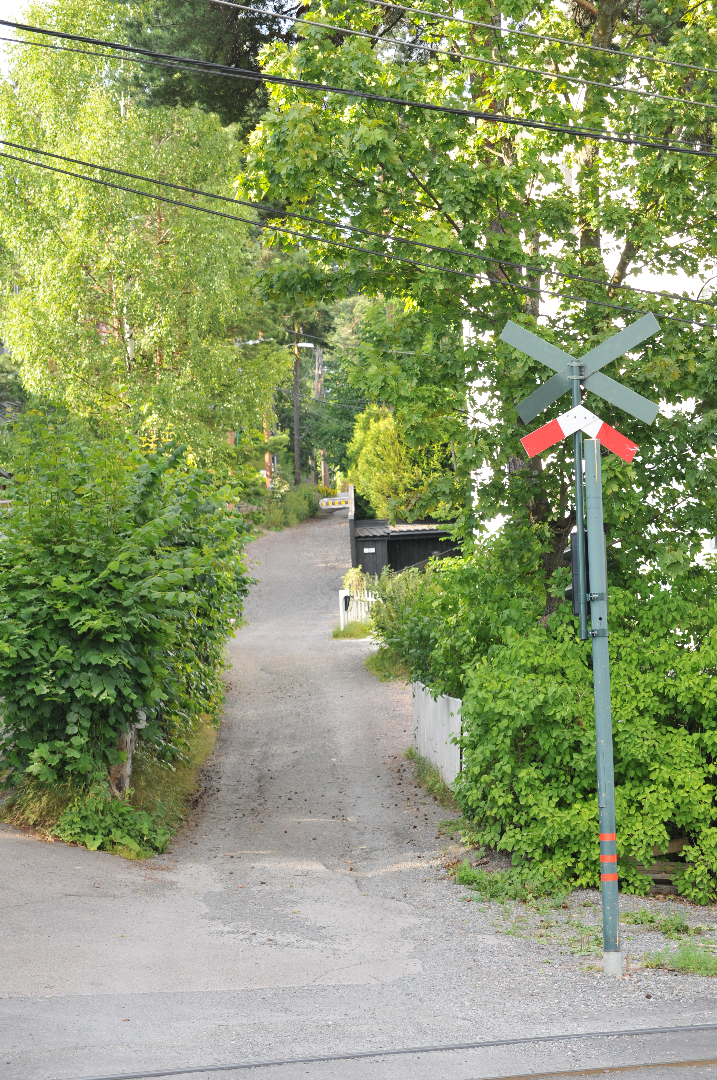 Bestumskolevei from Bestumveien